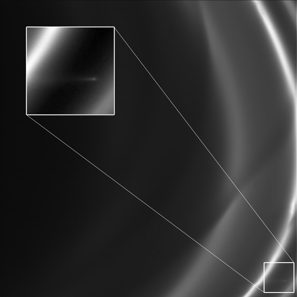 Small trail in saturn F Ring